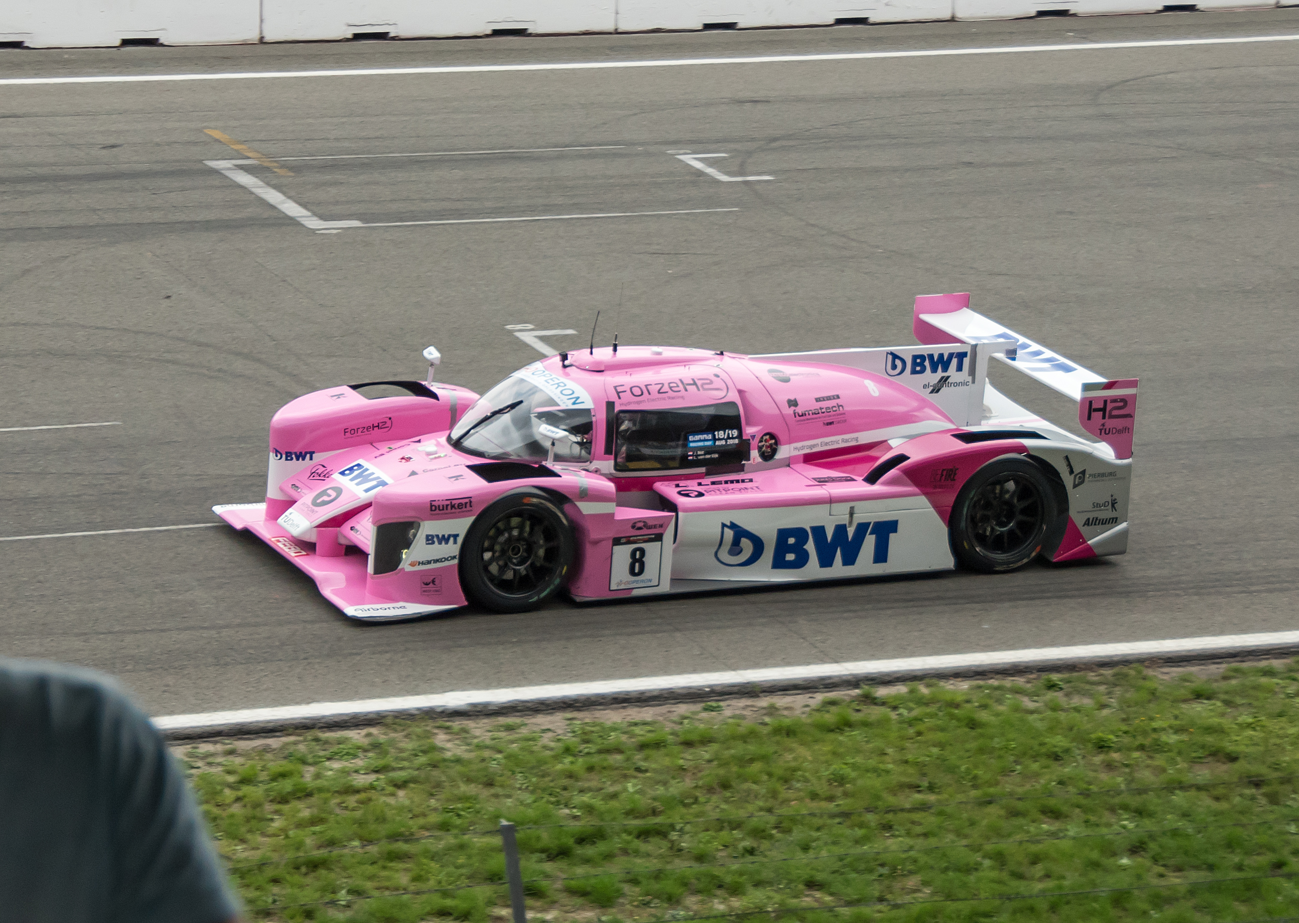 Forze VIII at Gamma Racing Day 2018 at the TT Assen Circuit